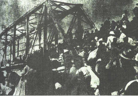 Male and female mechanics from Shanghai following army to move to Chongqing.